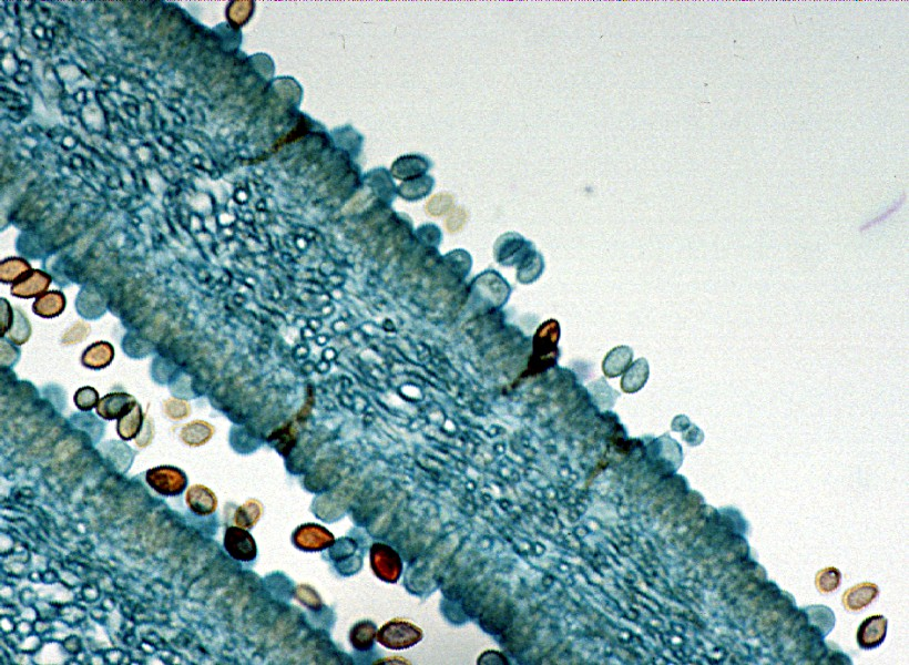 Light micrograph of a cross section of the gills of Coprinus, showing the hymenium with basidia